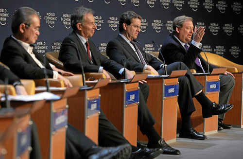 Tony Blair, David A. Harris and Rick Warren at the World Economic Forum Annual Meeting, Davos, Switzerland, 24 January 2008. Taken during the session 'Faith and Modernization'.